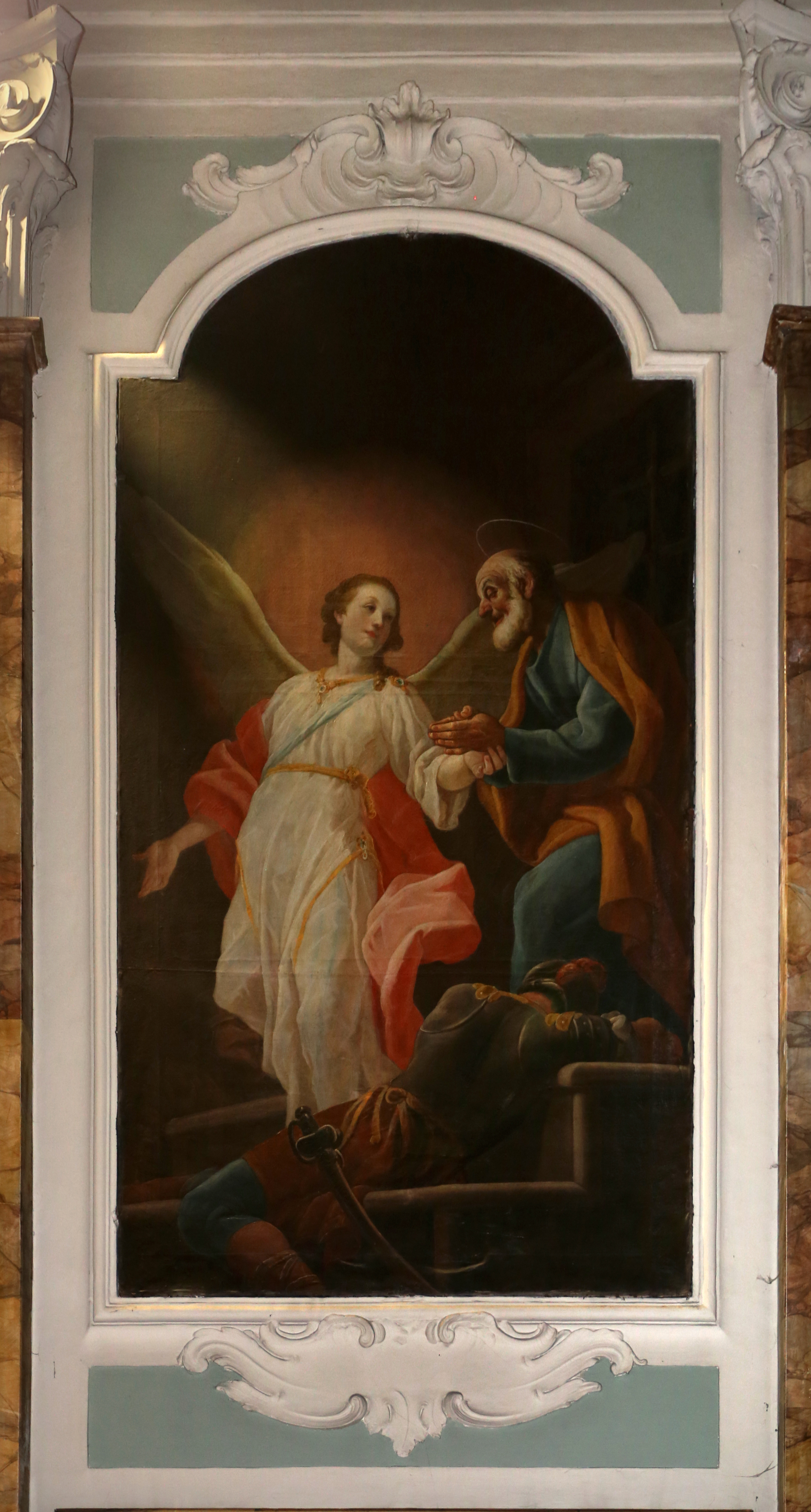 Santissimo Crocifisso (Borgo a Buggiano)